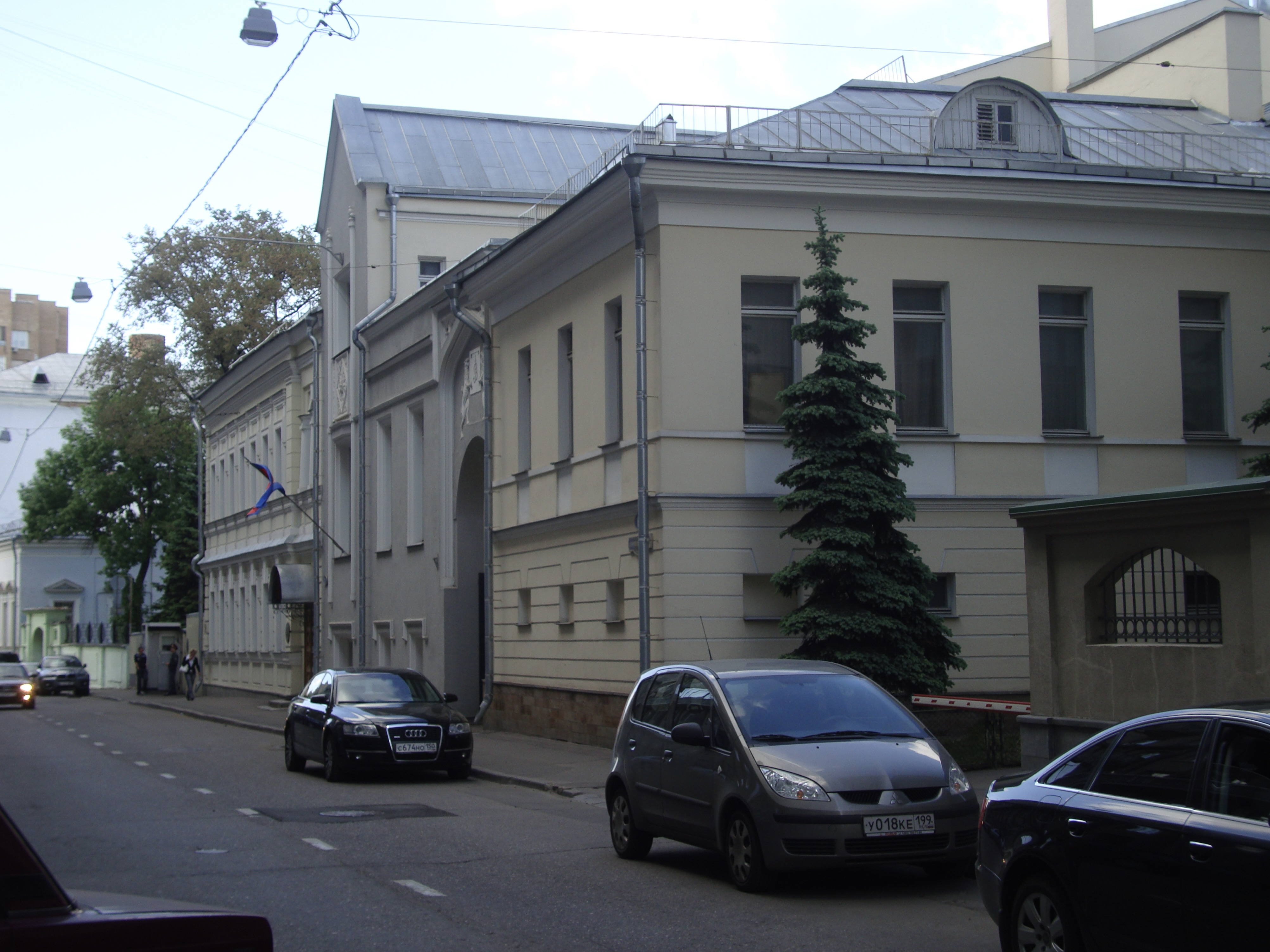 16 Starokonyushenny Lane, Khamovniki District, Moscow, Russia. Embassy of Cambodia.